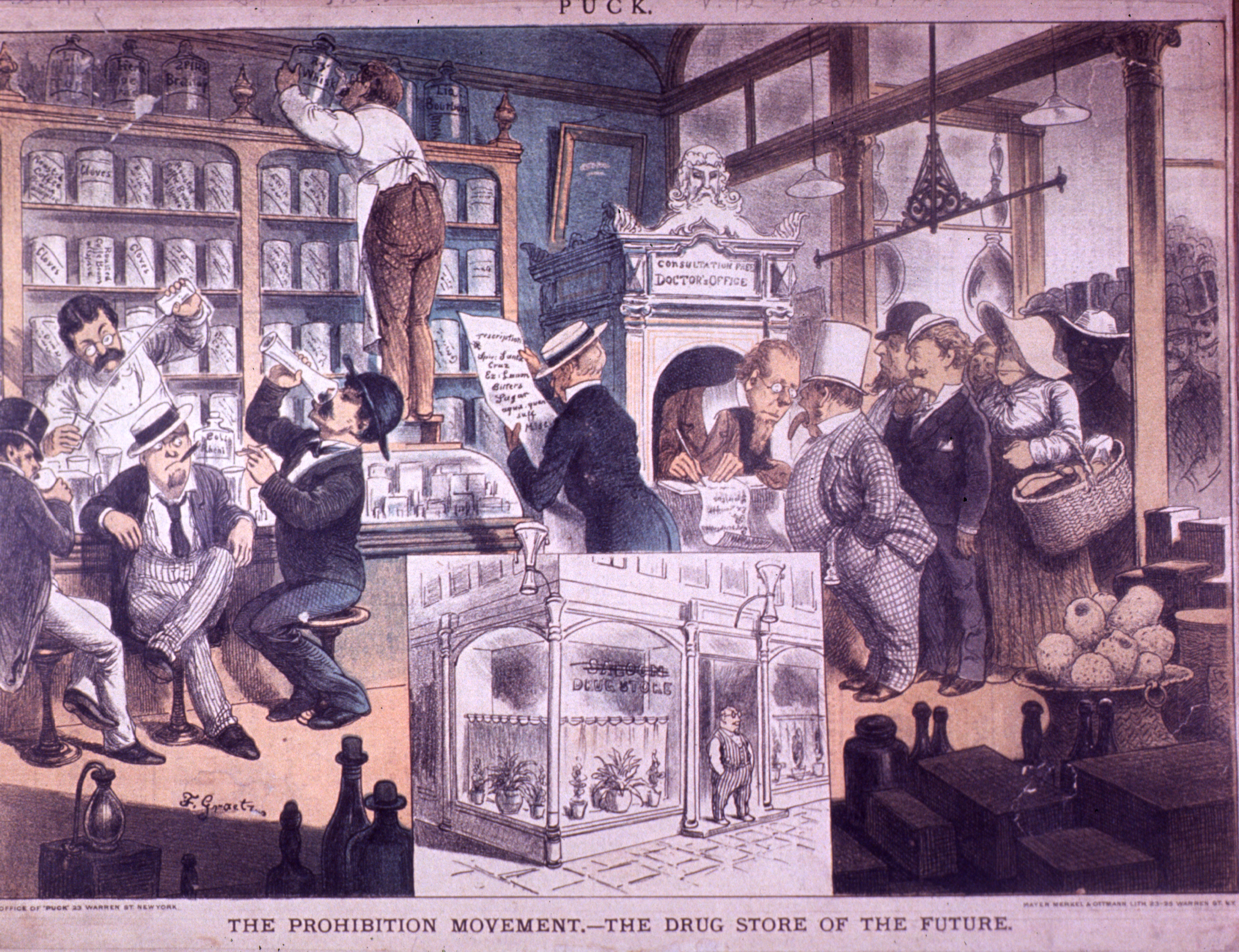 Author(s): Graetz, F. (Friedrich), ca. 1840-ca. 1913 Contributor(s): Mayer, Merkel & Ottman. Publication: New York : Mayer Merkel & Ottmann, 1882 Language(s): English Format: Still image Genre(s): Pictorial Works Abstract: Interior view: people are in a line to the side of a consultation free, doctor's office booth; men are sitting at a drug store counter; a graphic insert is the outside of the building with the window sign saloon crossed out and drug store written underneath. Related Title(s): Is part of: Pictures of life and character in New York, p. 29.; See related catalog record: 0035701 Extent: 1 photomechanical print : image and text 24 x 30 cm., on sheet 30 x 25 cm. Technique: lithograph, color NLM Unique ID: 101425210 NLM Image ID: A028421 Permanent Link